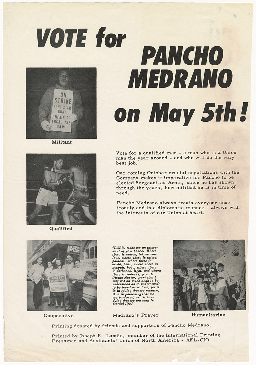 Campaign leaflets from Pancho Medrano's election to Sergeant at Arms for UAW (United Automobile Workers) Local 645 at North American. The union became Local 848 in 1962.